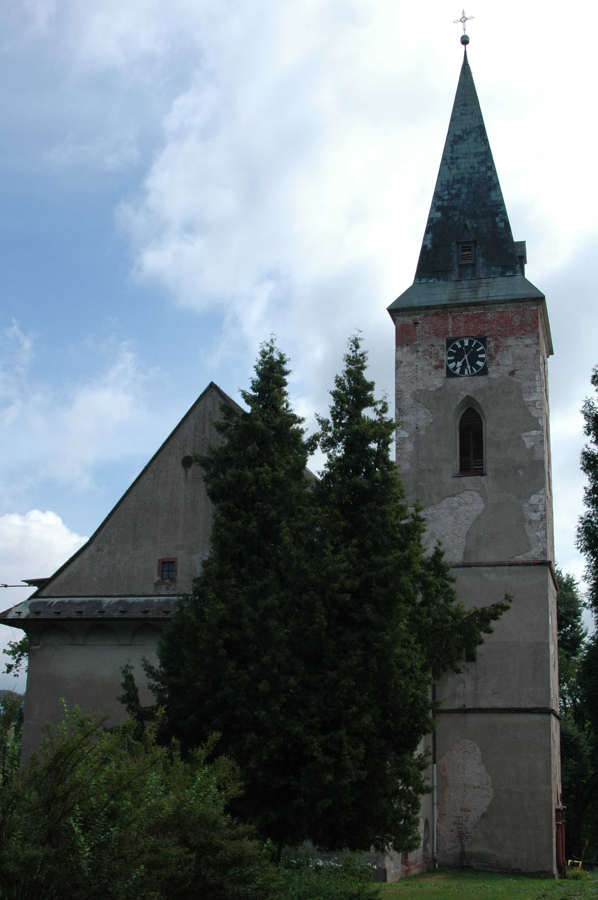 A church of st. James, son of Zebedee in Dolni Lanov.